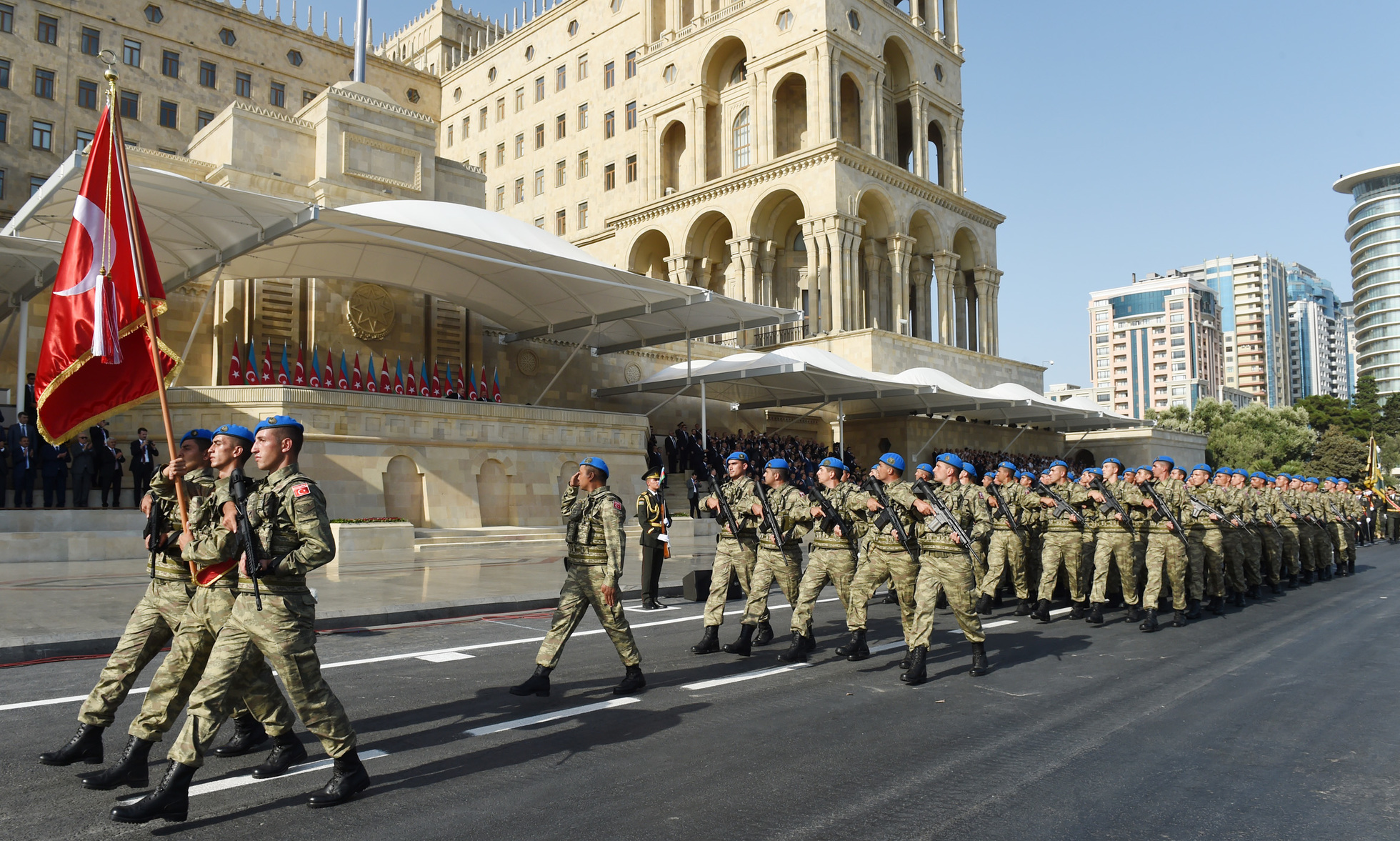 Ilham Aliyev and Recep Tayyip Erdogan attended the parade dedicated to 100th anniversary of liberation of Baku